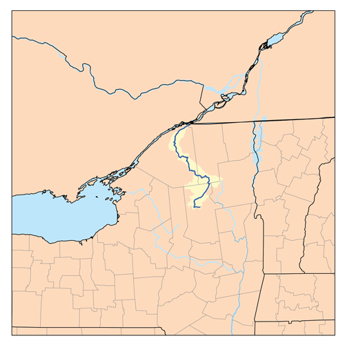 Map of the Raquette River watershed.